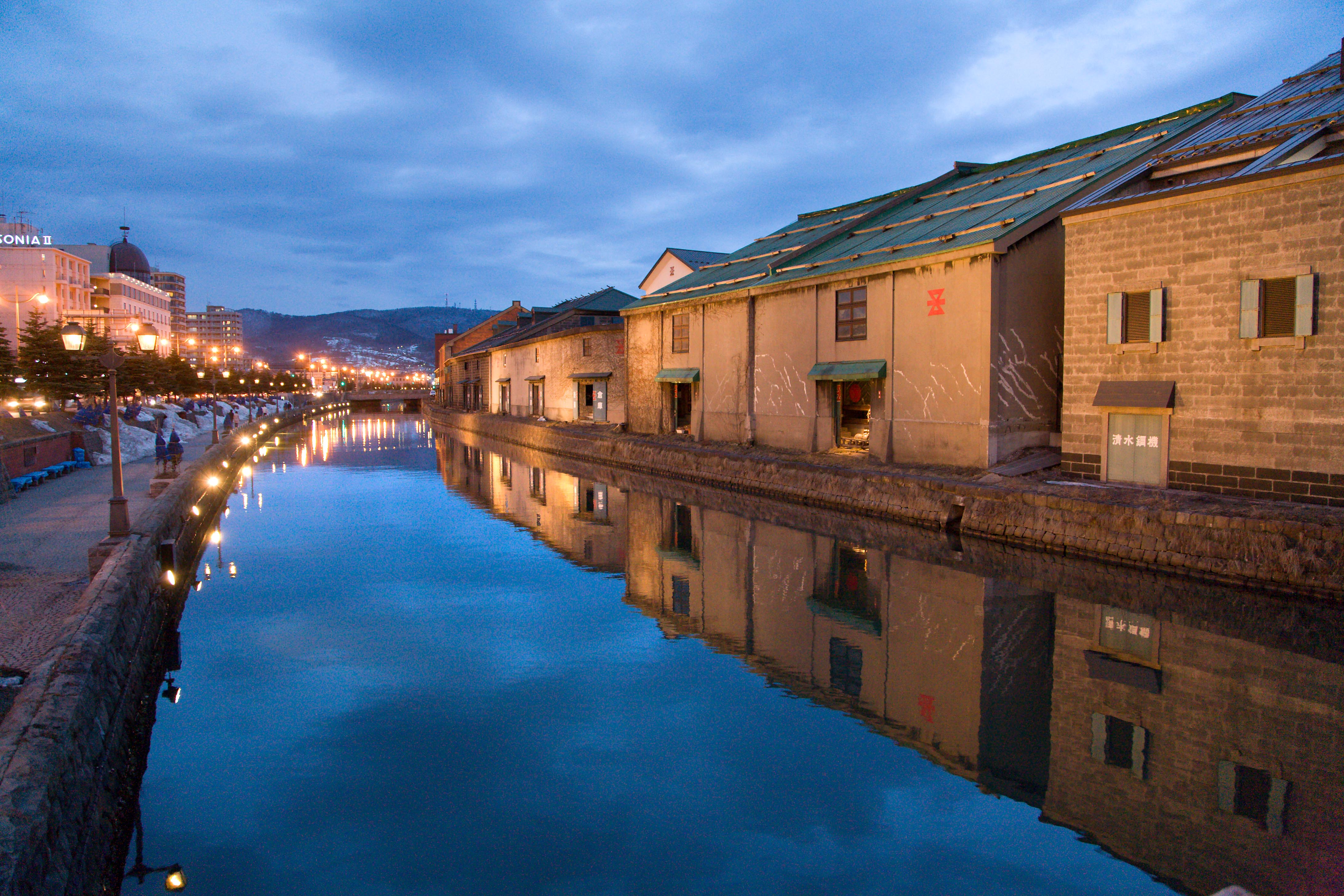 Otaru Canal at Dusk (HOKKAIDO/JAPAN), To approximate what I saw, I would ask you to view this in largeLocation: Otaru